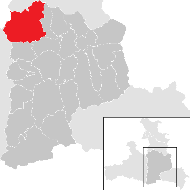 District Sankt Johann im Pongau